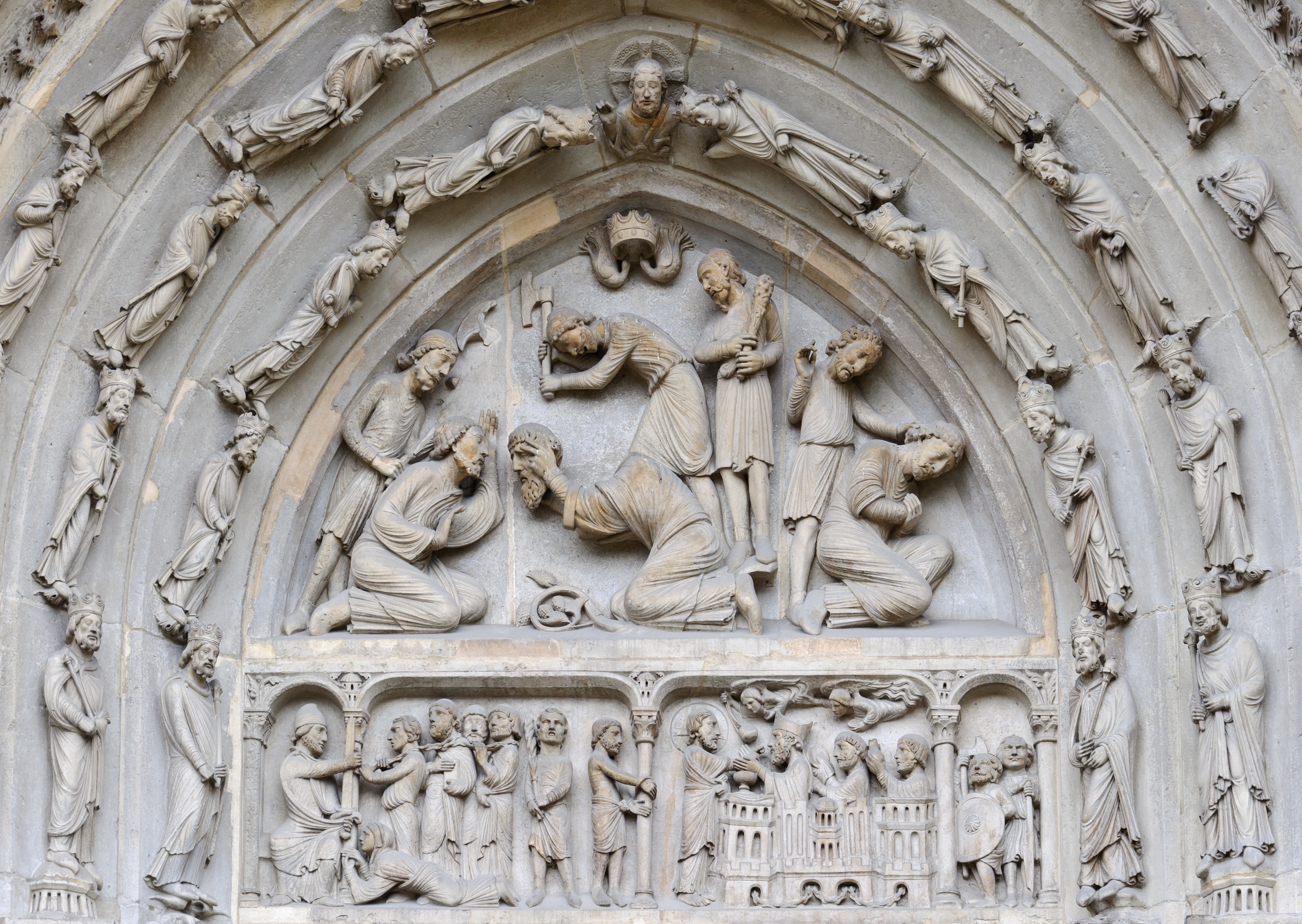 Basilica of St Denis, France, tympanum of the portal of the north transept : the beheading of saint Denis and of his companions Rustique and Eleutherius.